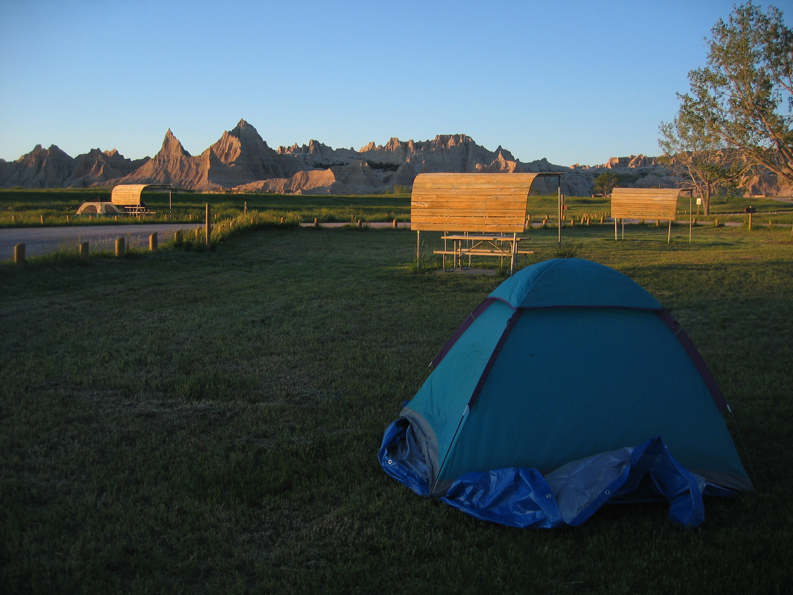 Camping at Cedar Pass Campground in Badlands National Park in South Dakota. I took this photo myself in 2005.